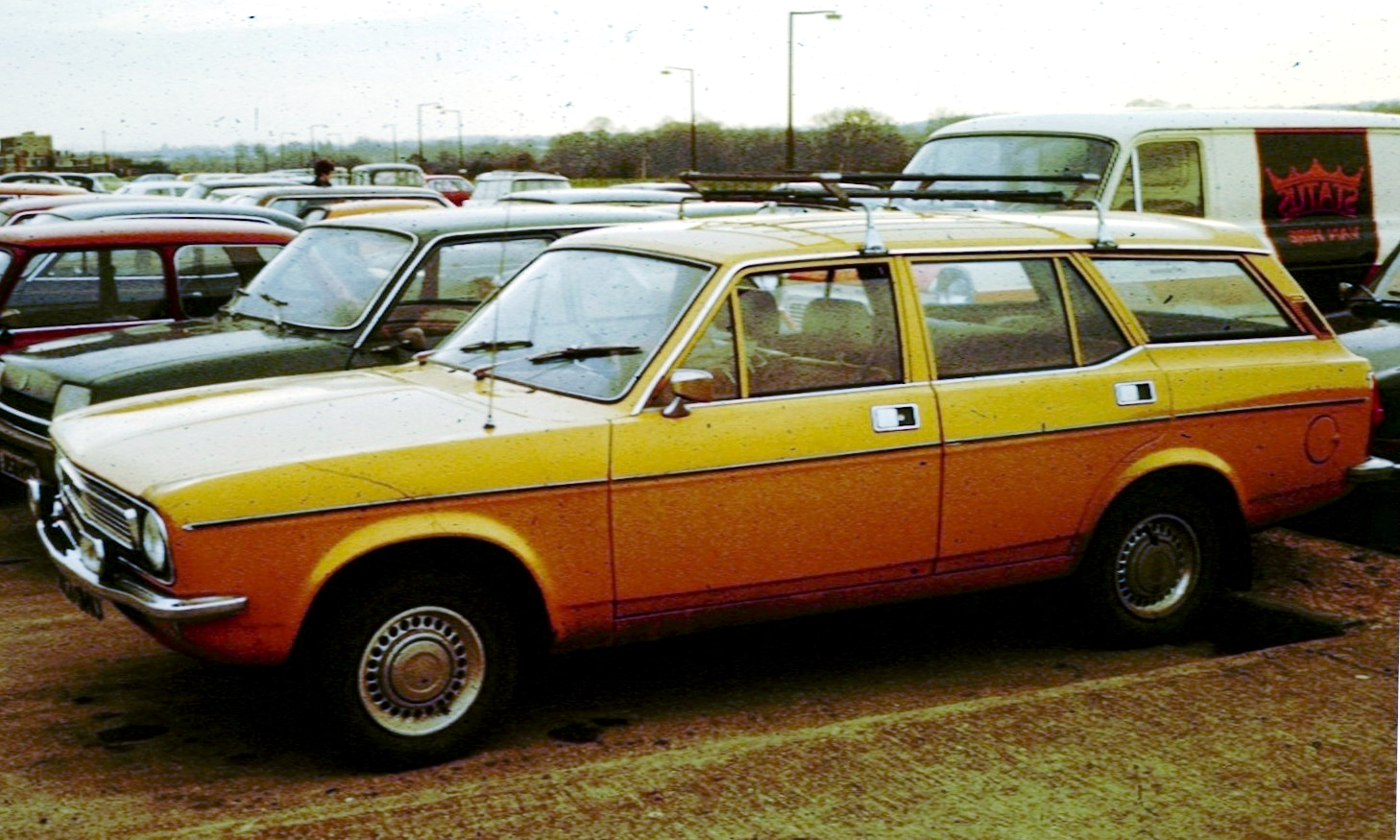 Morris Marina estate in a car park in England